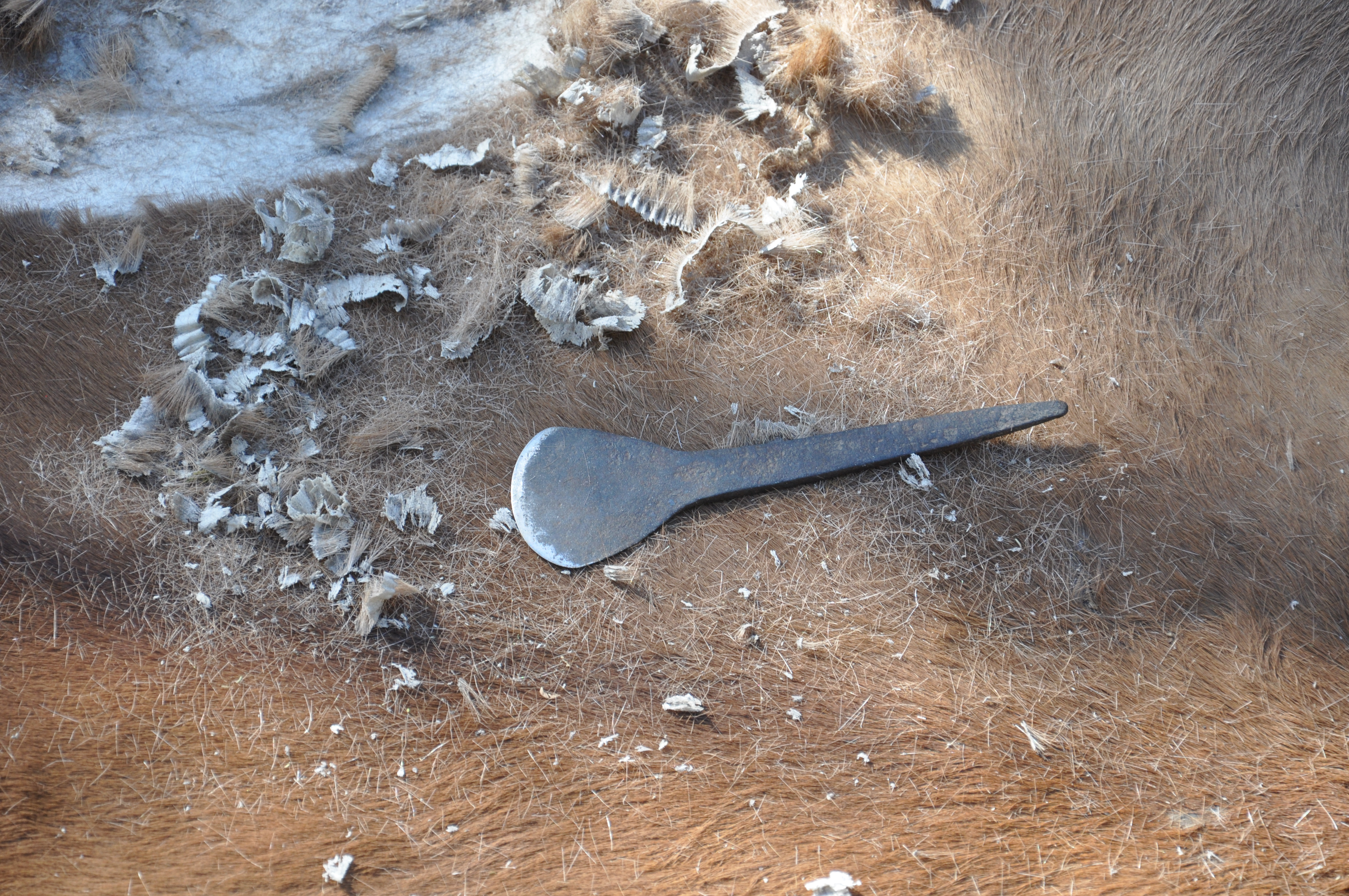 Hide skinning tool, Datoga ethnic group, Tanzania